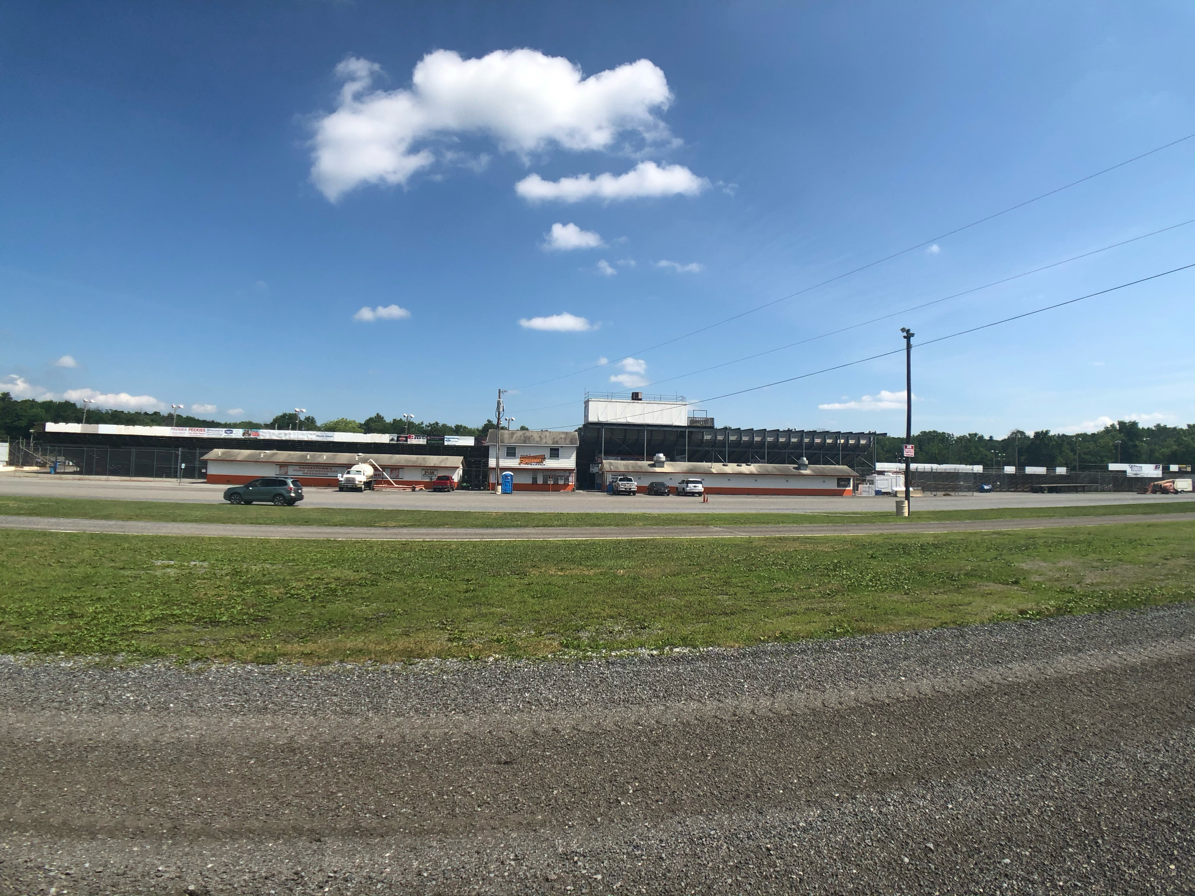 Outside of the Grandstands of Hagerstown Speedway